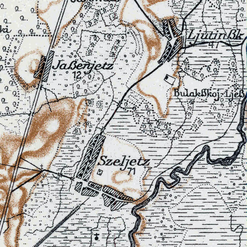 Selets on the map "Karte des Westlichen Russlands", T 35, 1917. According to Digital Repository of Scientific Institutes and Kujawsko-Pomorska Digital Library the map is in the public domain.